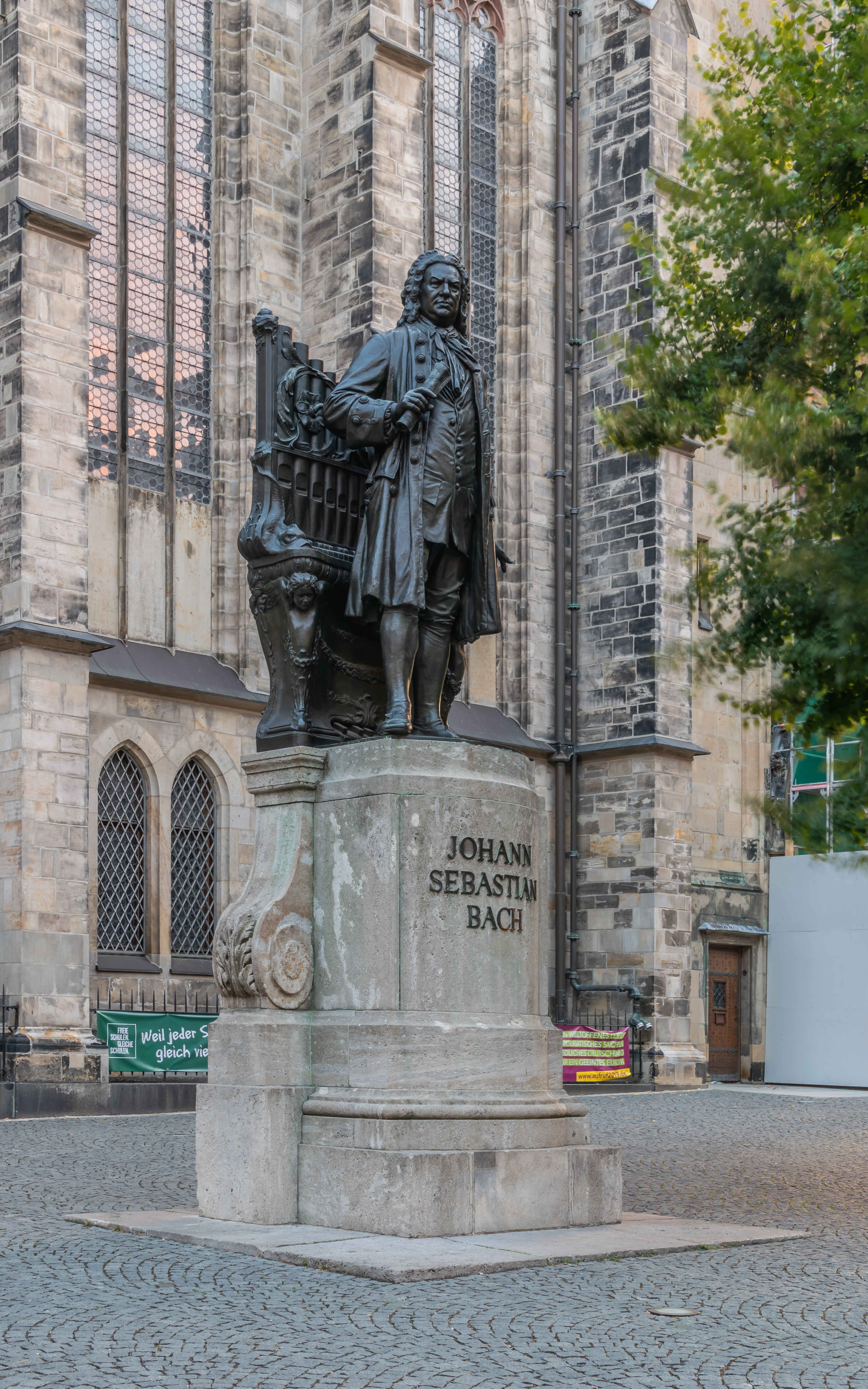 Statue of Johann Sebastian Bach at Thomaskirchhof in Leipzig, Saxony, Germany